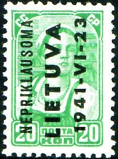 Soviet Union (Michel Nr. 578; green; 20 Kopeks) with triple-spaced overprint "NEPRIKLAUSOMA / LIETUVA / 1941-VI-23" (= "Independent / Lithuania / 1941-06-23")